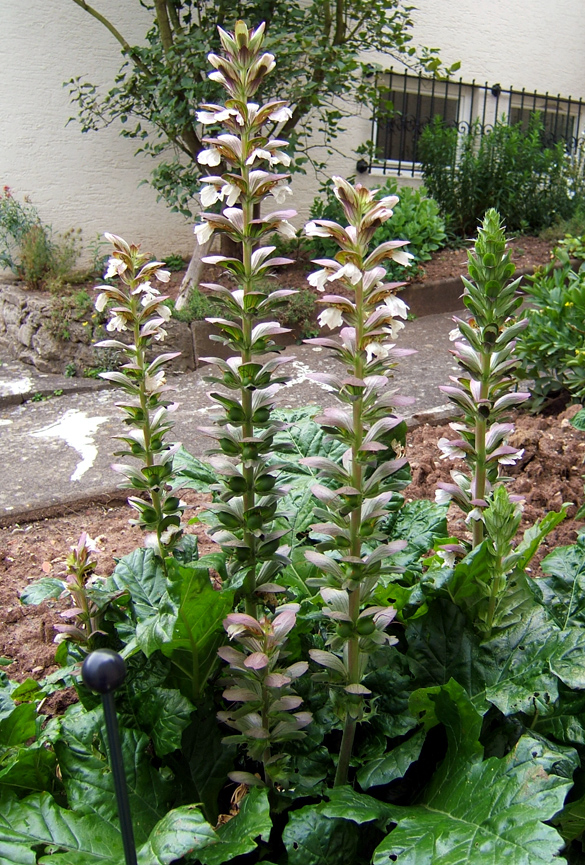 Bear's breeches